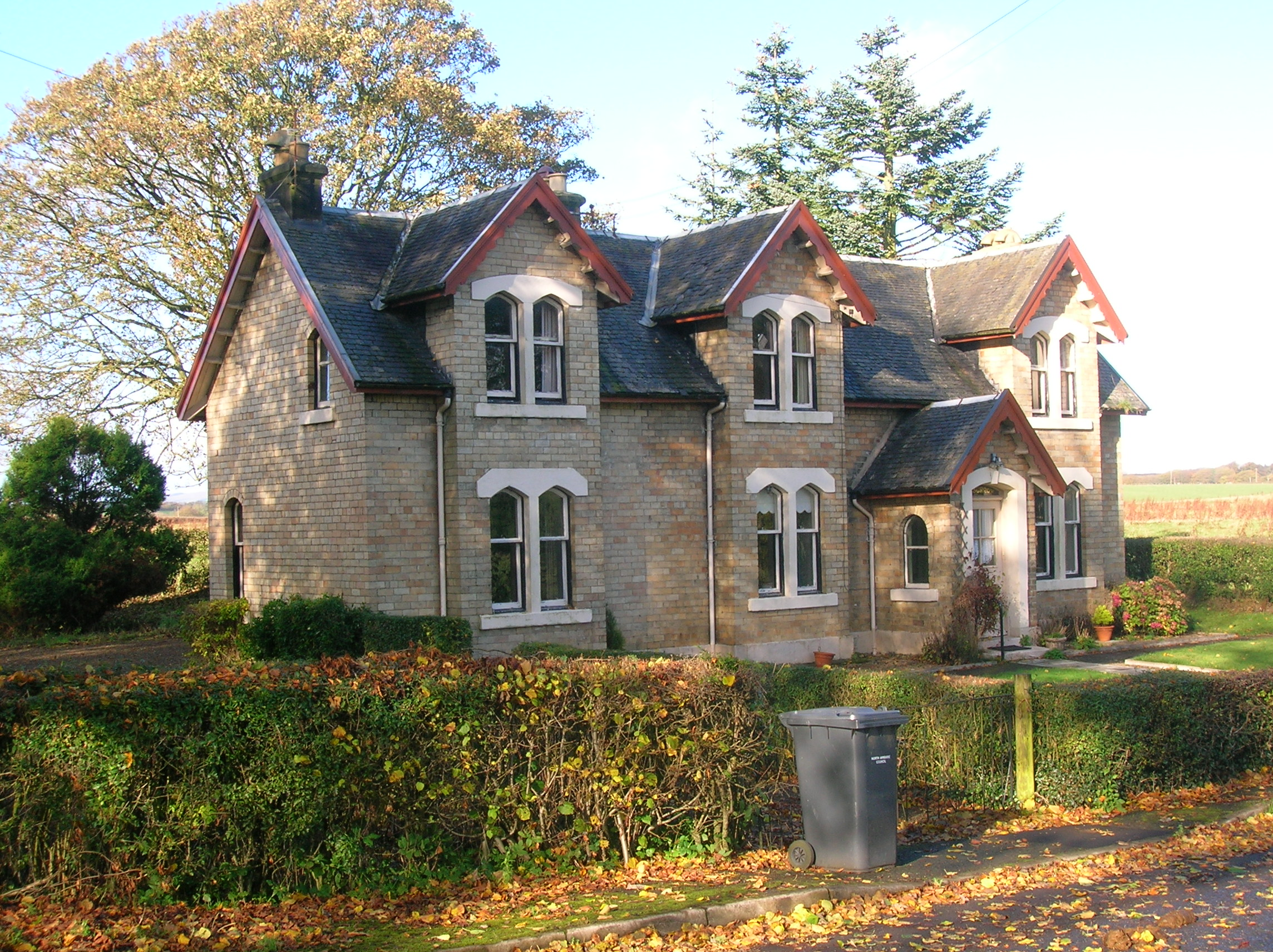 The old Fergushill manse near Montgreenan station, North Ayrshire, Scotland.